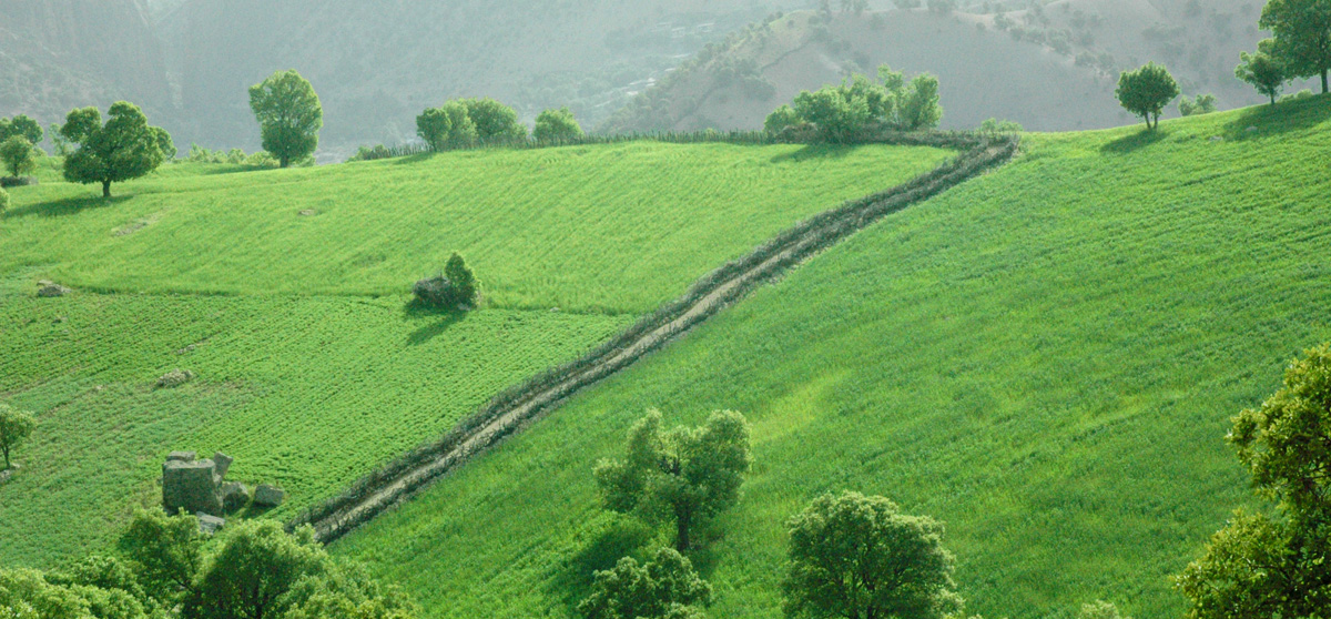 Pereshkaft, Iran